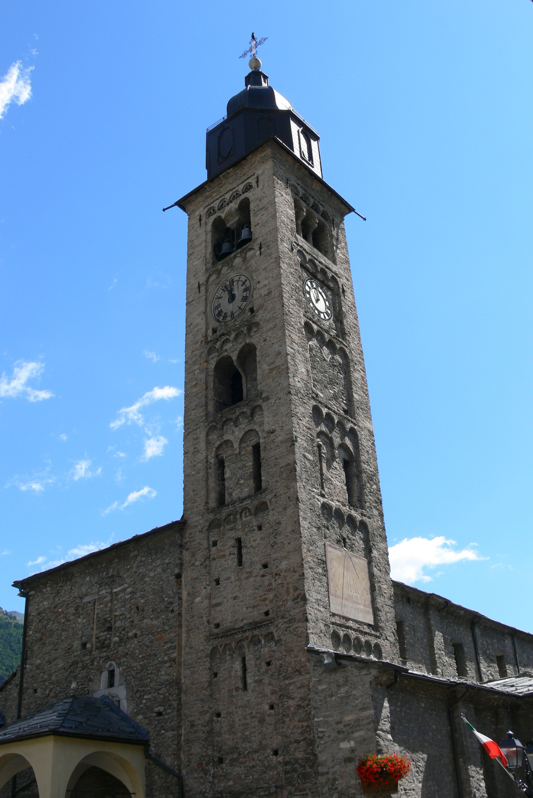 Morgex ( Aosta Valley ). Church tower ( 12th century ).